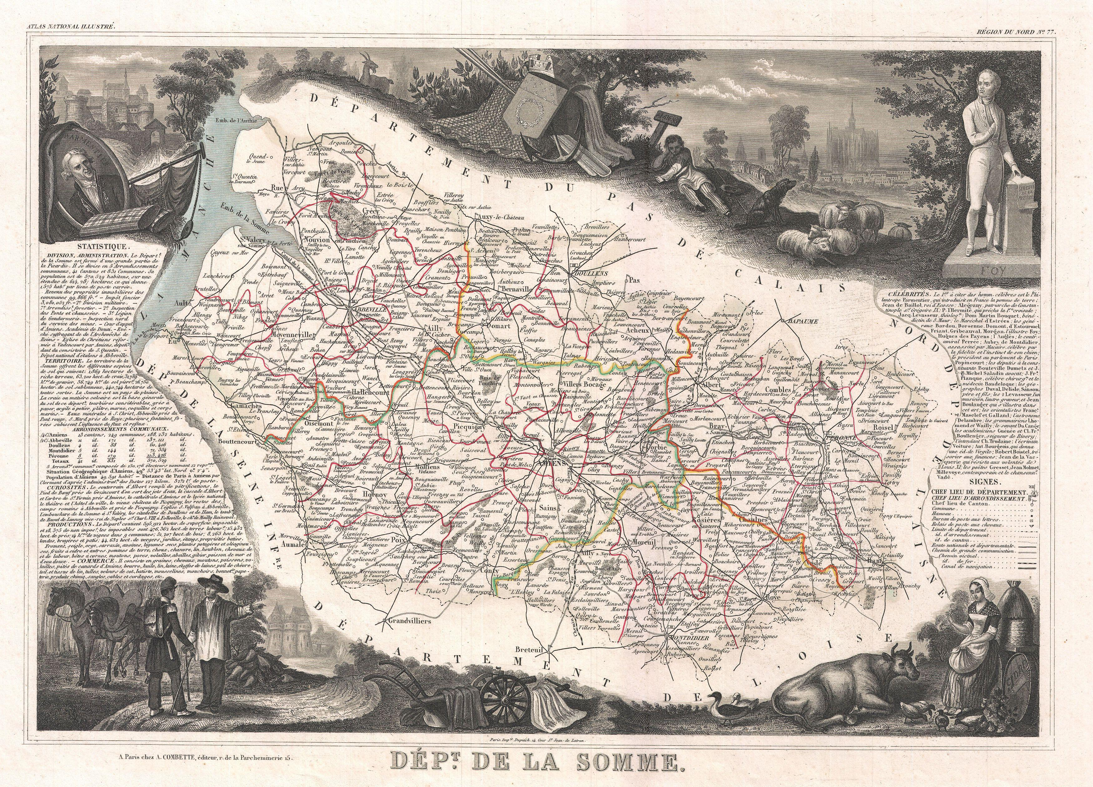 This is a fascinating 1852 map of the French department of Somme, France. This area is home to the region of Picardy, which produces Maroilles, a popular French cheese. The map proper is surrounded by elaborate decorative engravings designed to illustrate both the natural beauty and trade richness of the land. There is a short textual history of the regions depicted on both the left and right sides of the map. Published by V. Levasseur in the 1852 edition of his Atlas National de la France Illustree.